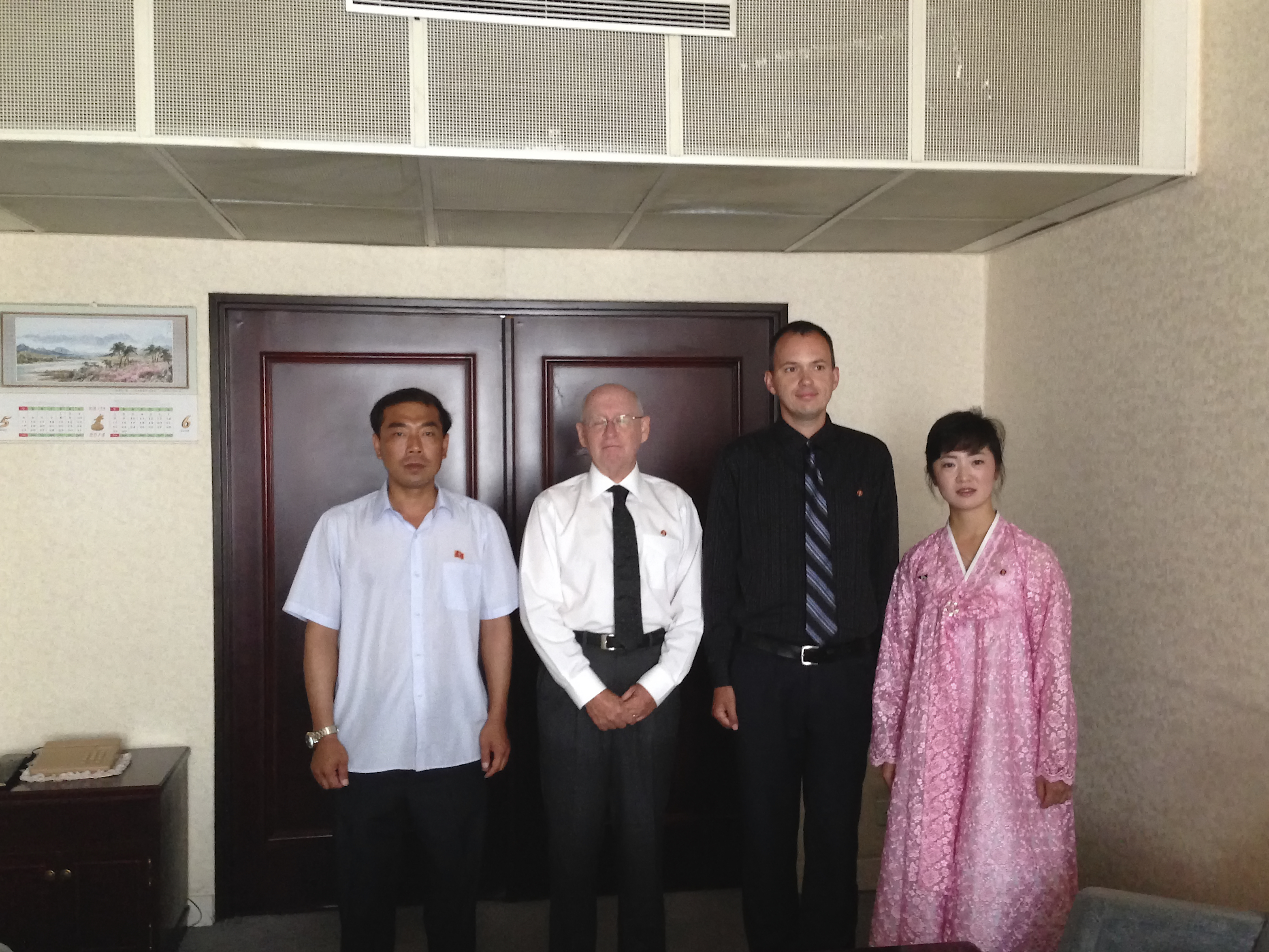 Deputy Manager of External Affairs of the Korean National Travel Administration, Chol Man Ri. A very fine and humbling experience. Traveled With Young Pioneer Tours.